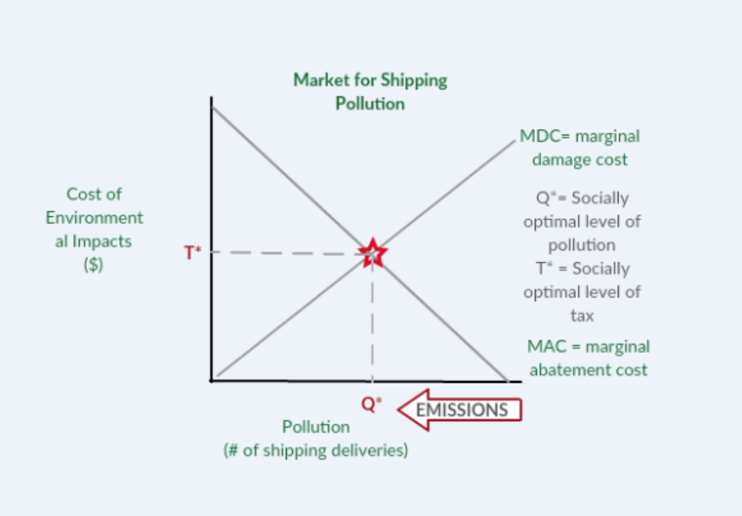 This graph shows the market for shipping pollution. It illustrates that by reducing emissions one can reach a socially optimal quantity of pollution and a socially optimal amount of tax.